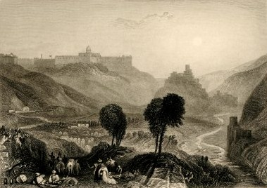 Mount Moriah, illustration to the Biblical Keepsake (1835–6 in book form) by Thomas Hartwell Horne.